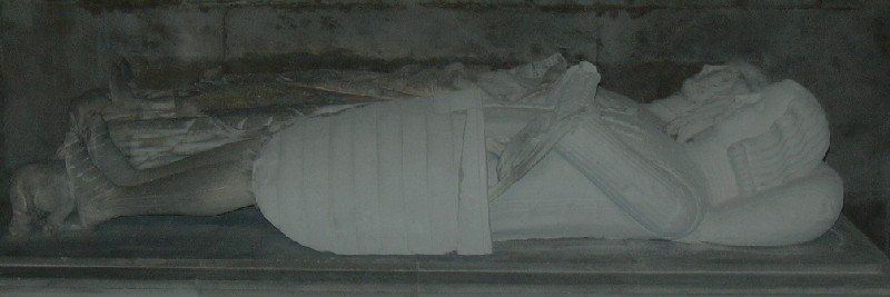 This picture shows count of Vaudemont Henri IIIrd's tomb in Cordeliers'Church at Nancy.